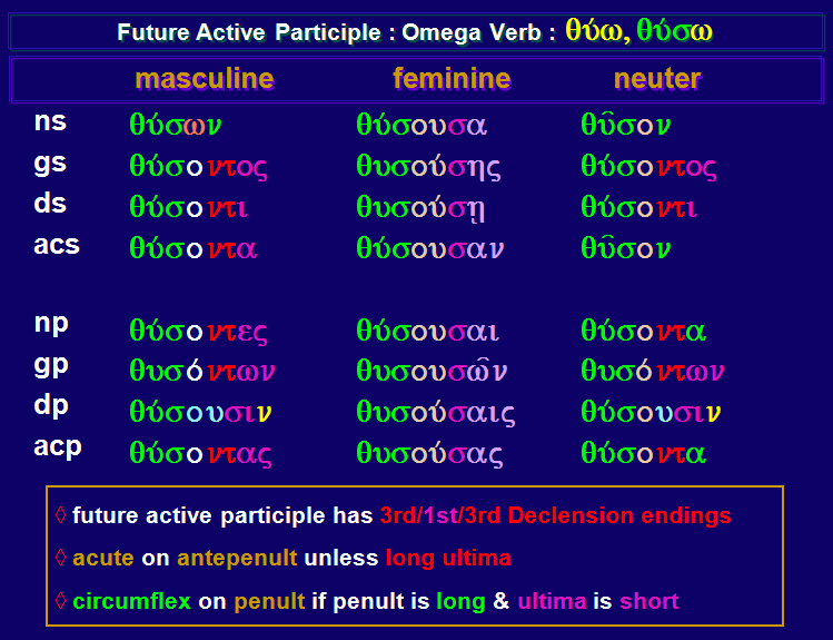 Greek: Future Active Participle of thuo